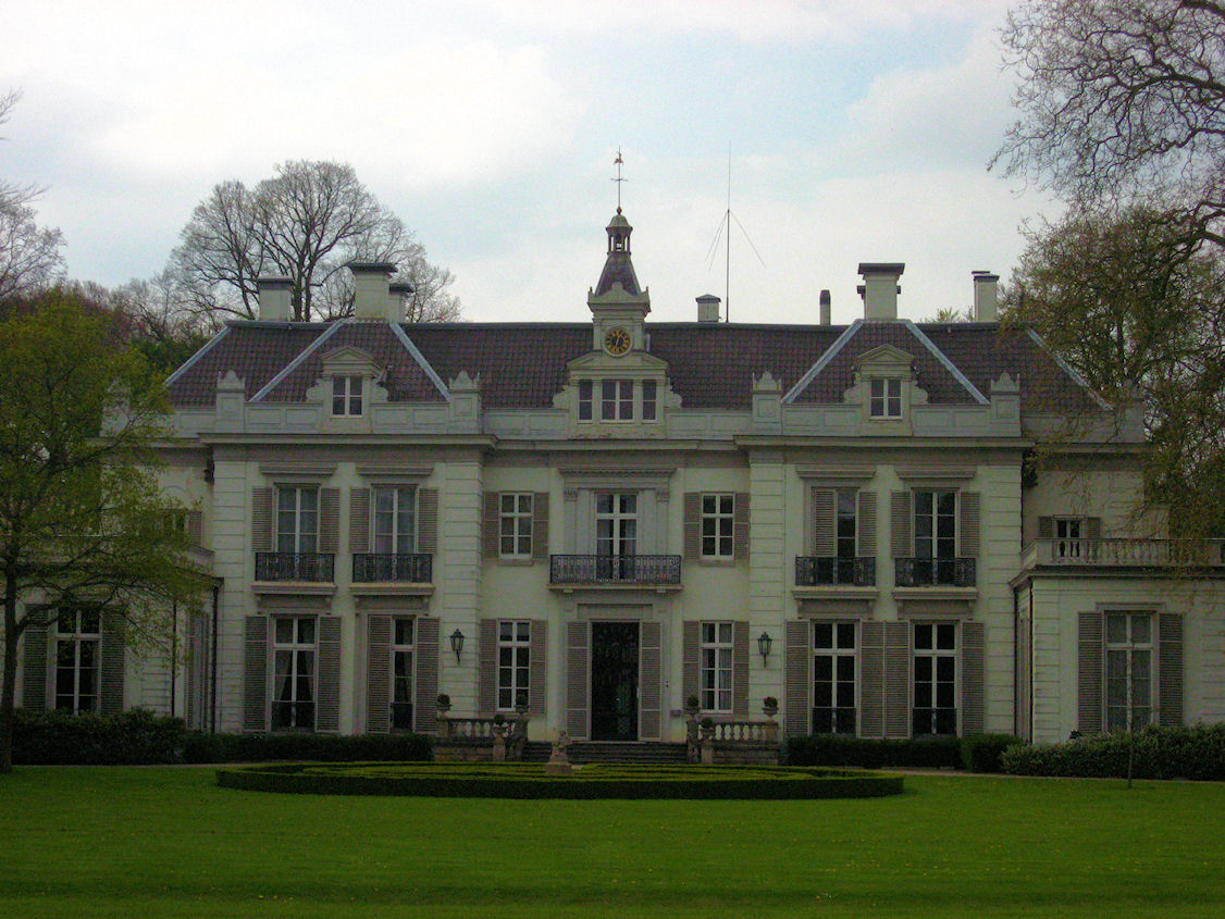 Hartekamp, in Heemstede